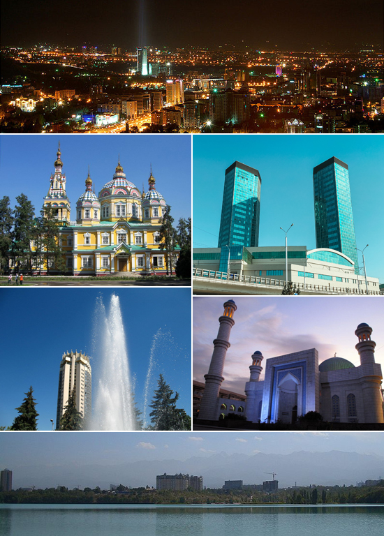 Montage of Almaty, Kazakhstan